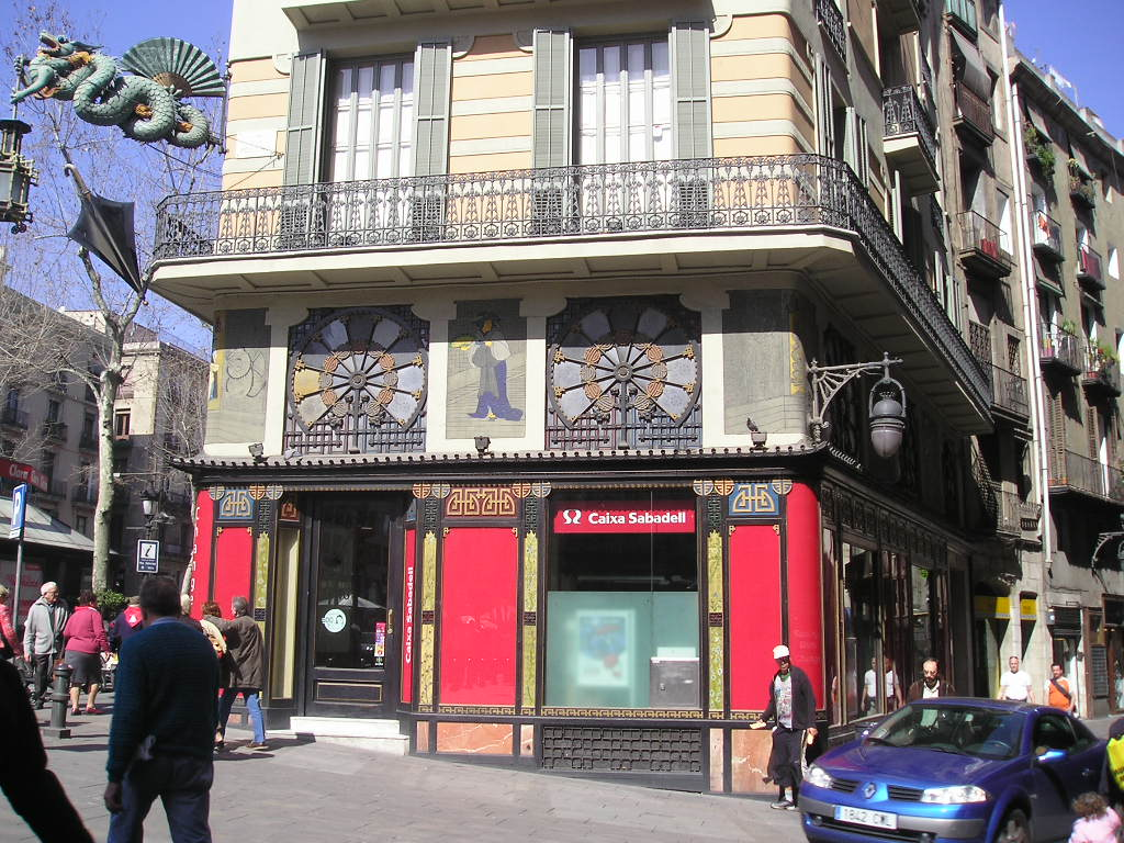 Casa de los paraguas (Casa Bruno Cuadros) en las ramblas de Barcelona